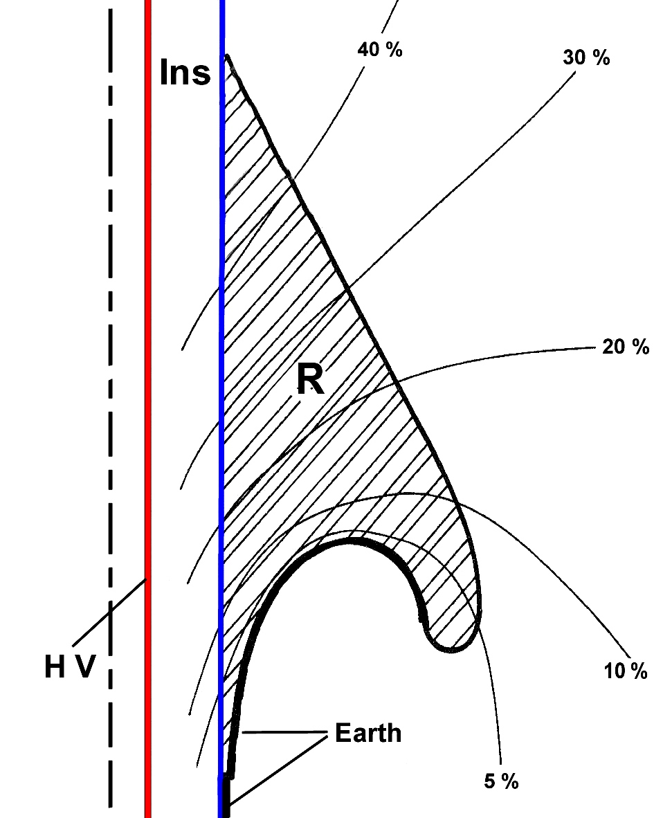 A terminal or so-called stress-cone for terminating High Voltage cables. The rubber body 'R' bears a conductive layer 'C' that spreads the equipotential lines. Picture to be used in article "High voltage cable"